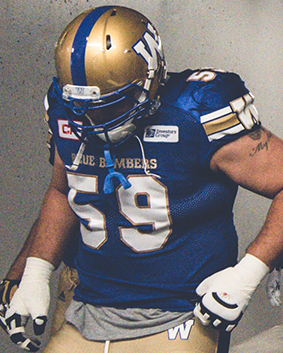 Trent Corney (43) and Jace Daniels (59) of the Winnipeg Blue Bombers during the pre-season game at TD Place in Ottawa, ON on Monday June 13, 2016. (Photo: Johany Jutras)